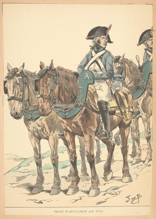 French artillery train -Revolution/1st Empire era